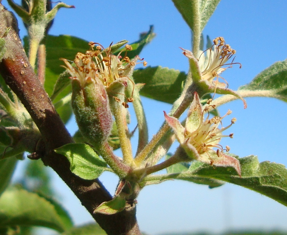 Apple fruitlets before June drop